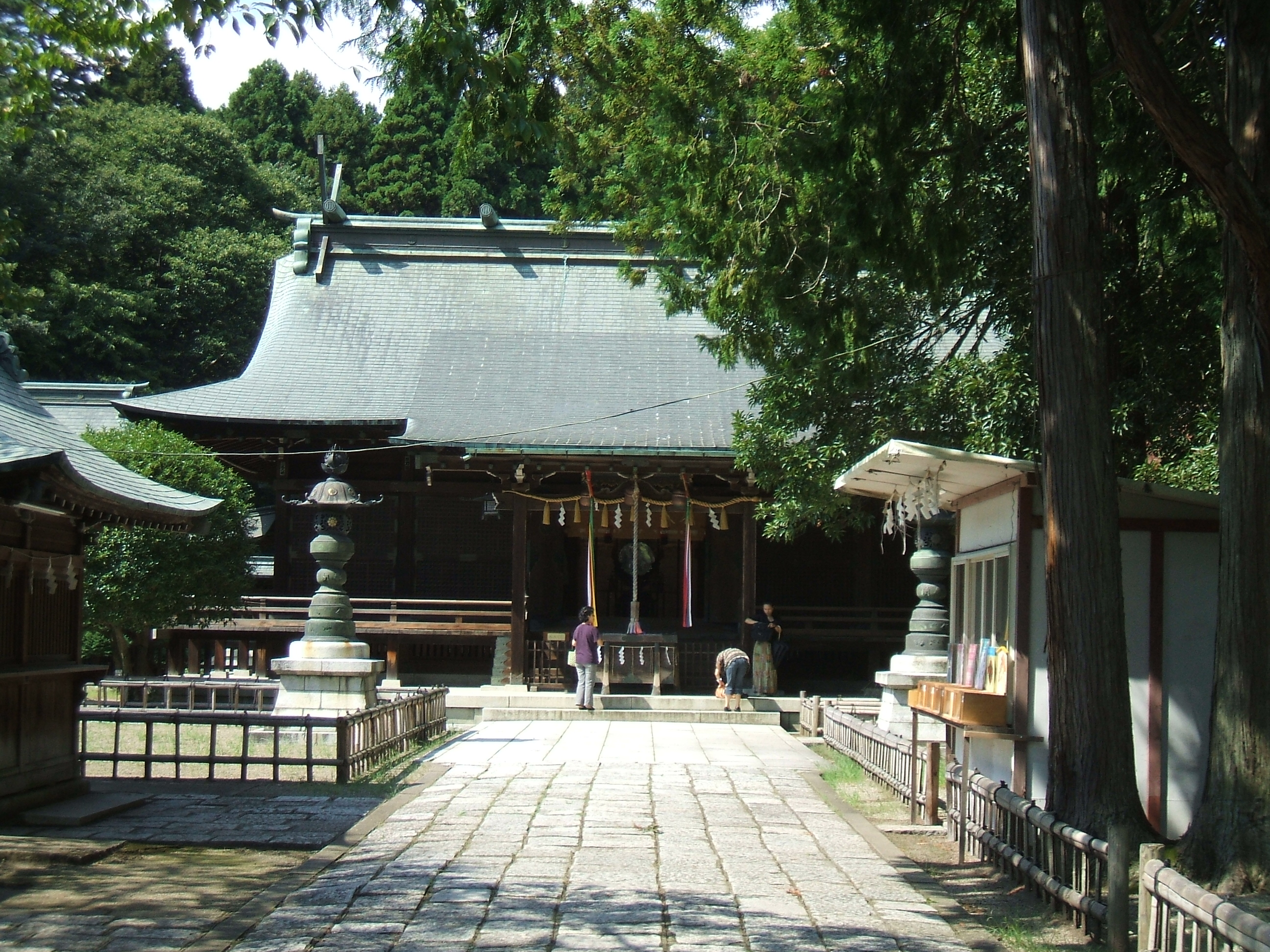 This is landscape of Aoba Shrine.